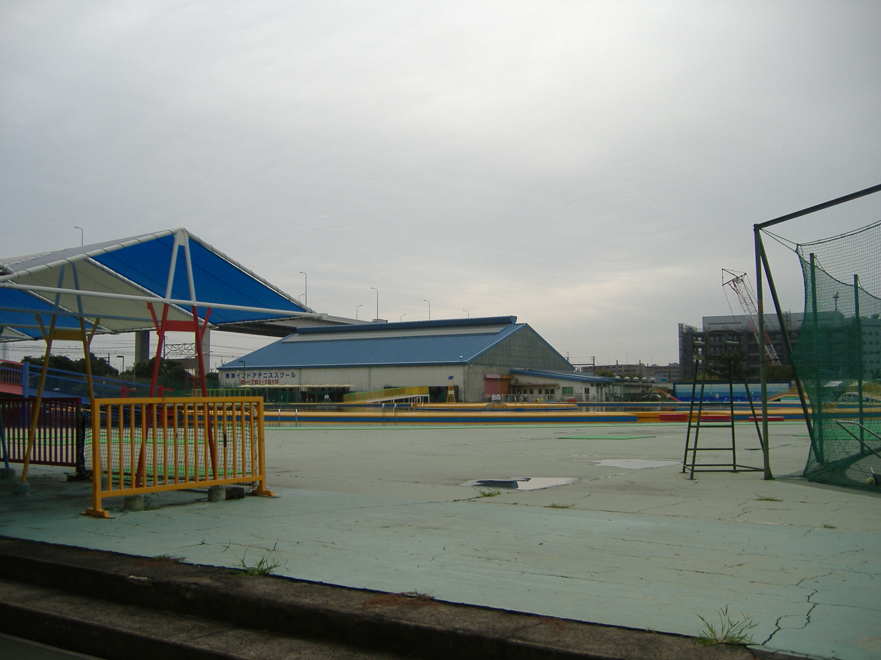 Yokohama Pool Center (Yokohama, Japan)